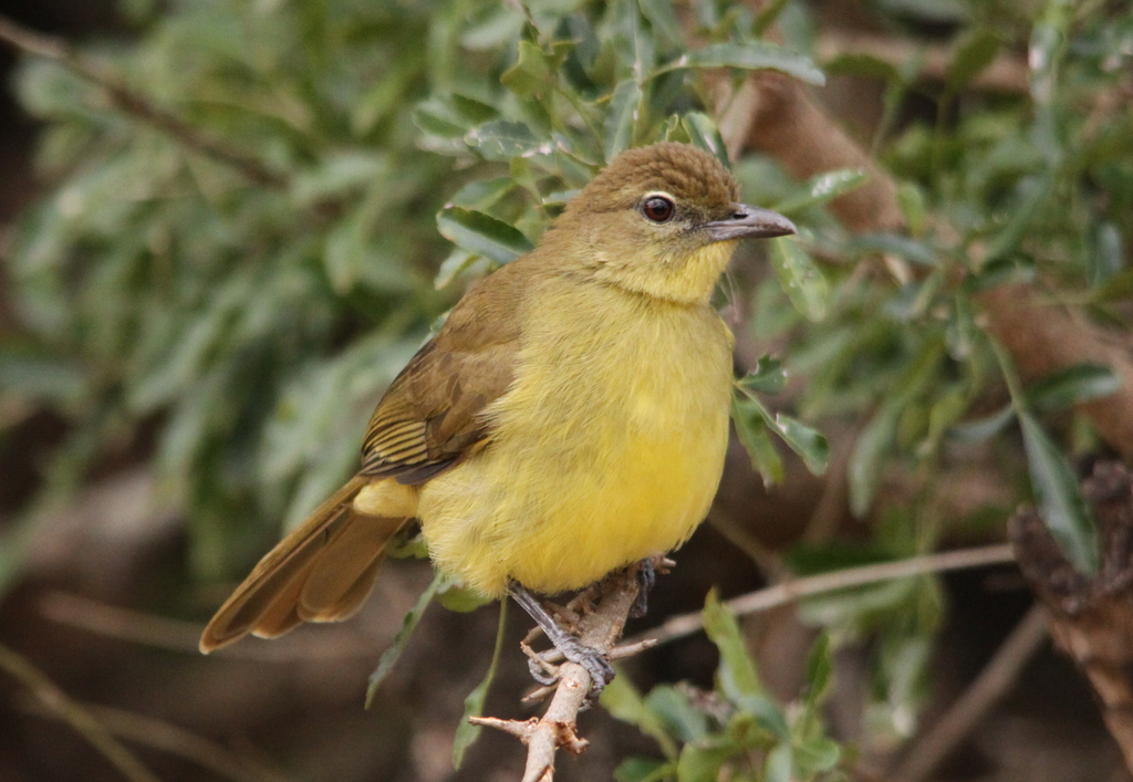 Yellow-bellied Greenbul, Chlorocichla flaviventris